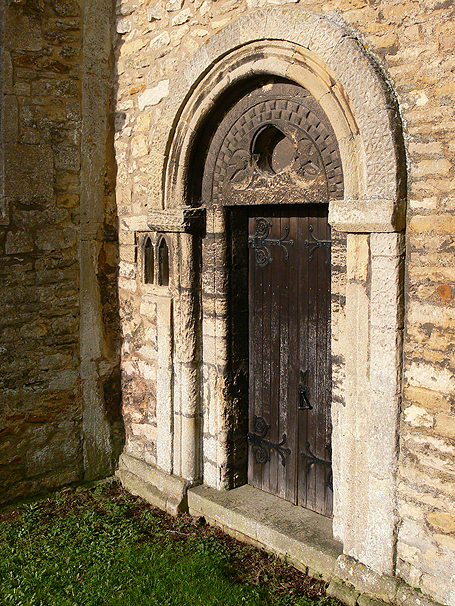 Norman priest's door of SS Medard and Gildard's church, Little Bytham, Lincolnshire, England. The empty circular niche in the semicircular tympanum above the door may once have held a relic of St Medard or Medardus. There is earlier (Saxon) long-and-short stonework at the corner between the two walls.